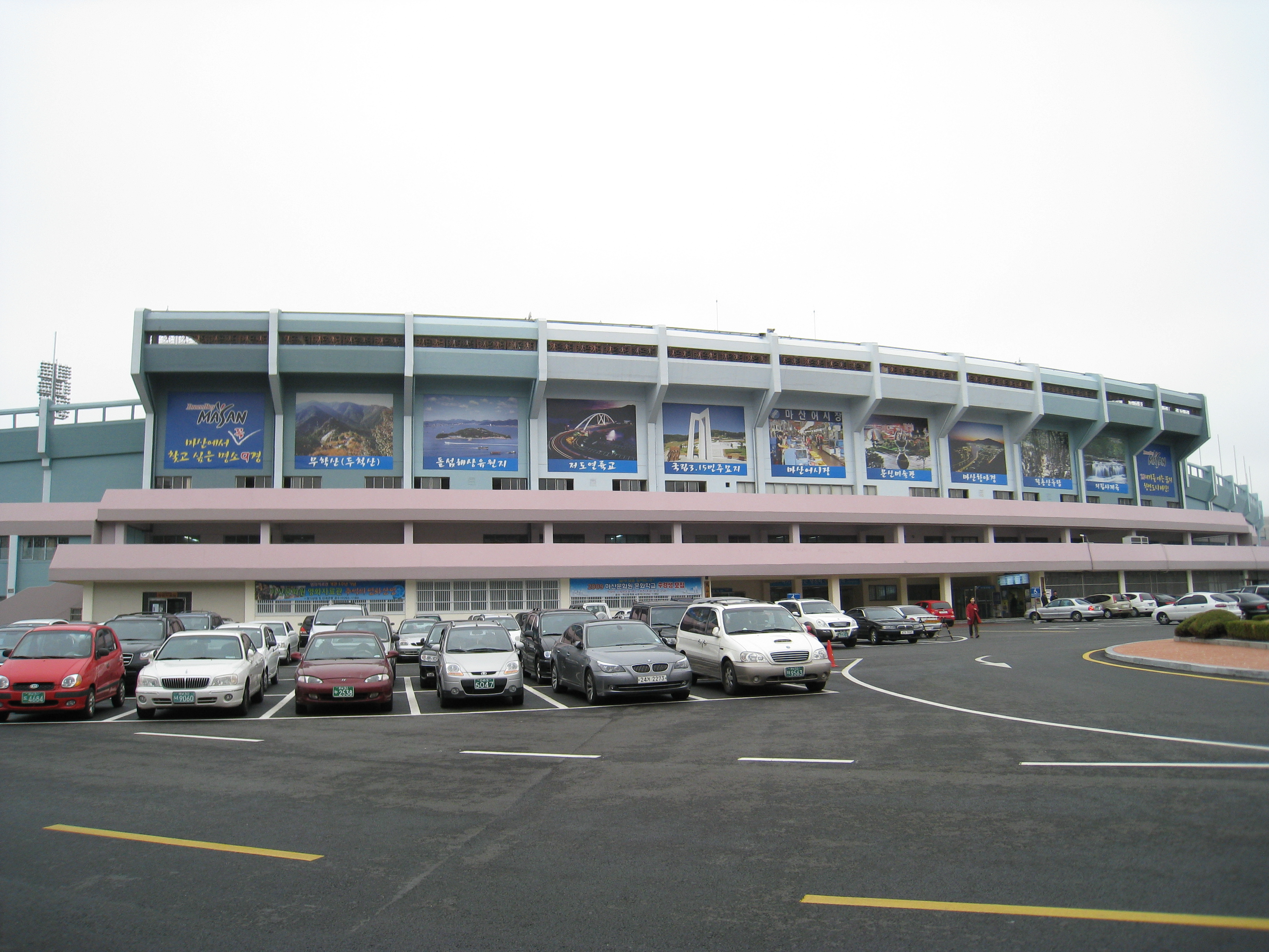 Masan Sportsstadium. Masan, Gyeongsangnam-do.South Korea.